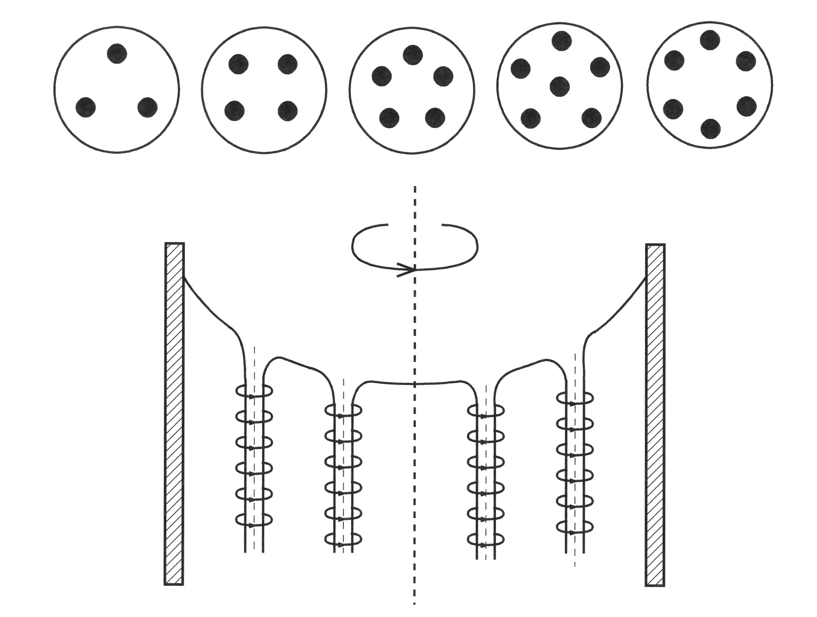 Vortex lines in rotating helium